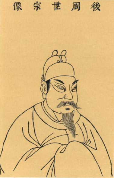 Block portrait of Chai Rong.